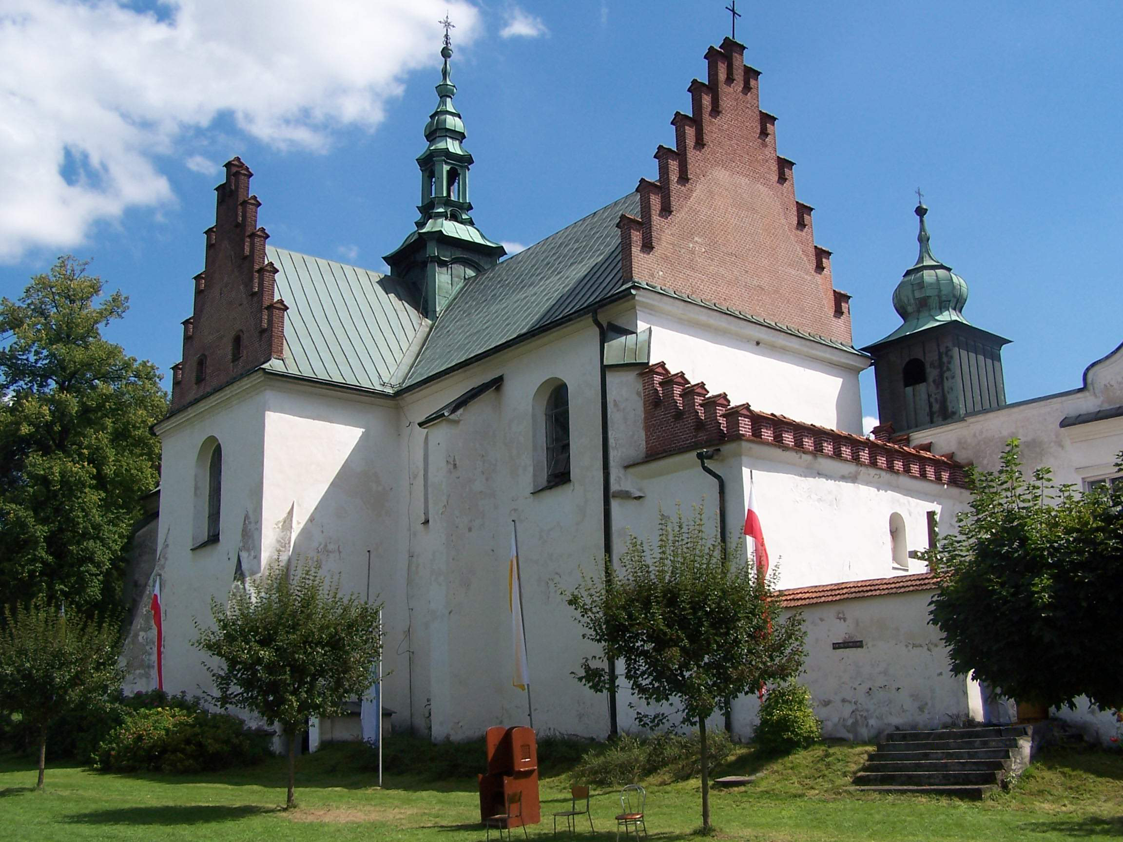 Photo by Piotrus.